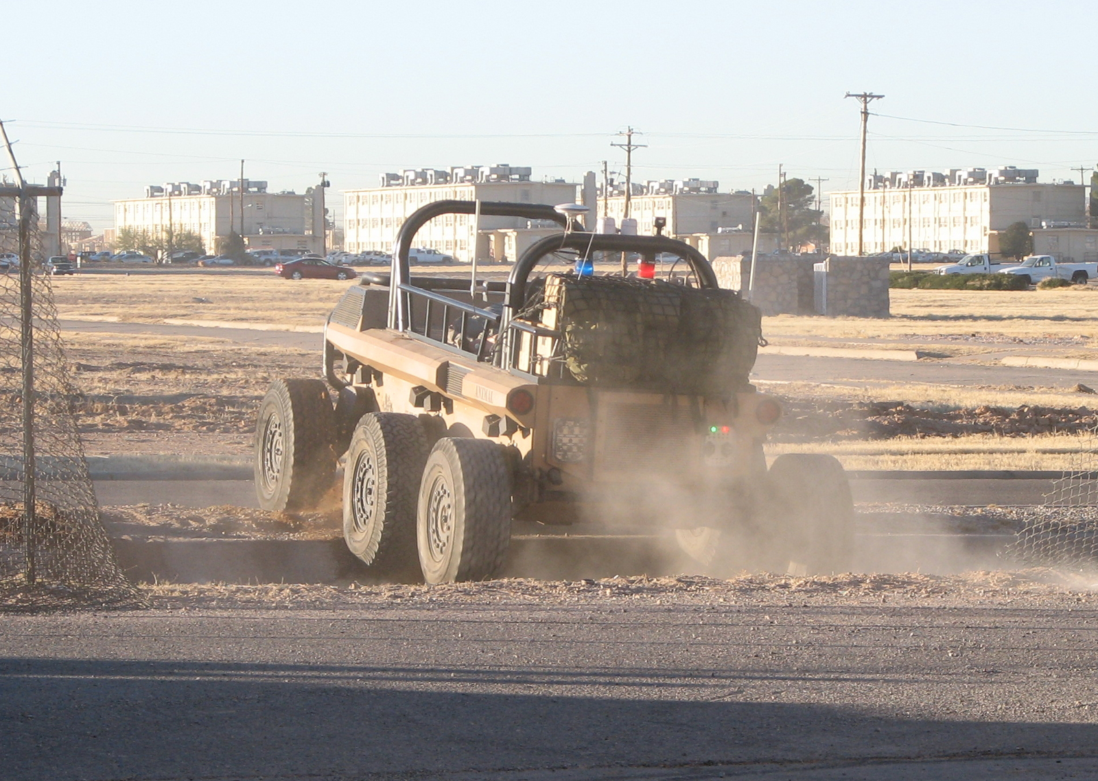 FCS MULE at ft bliss